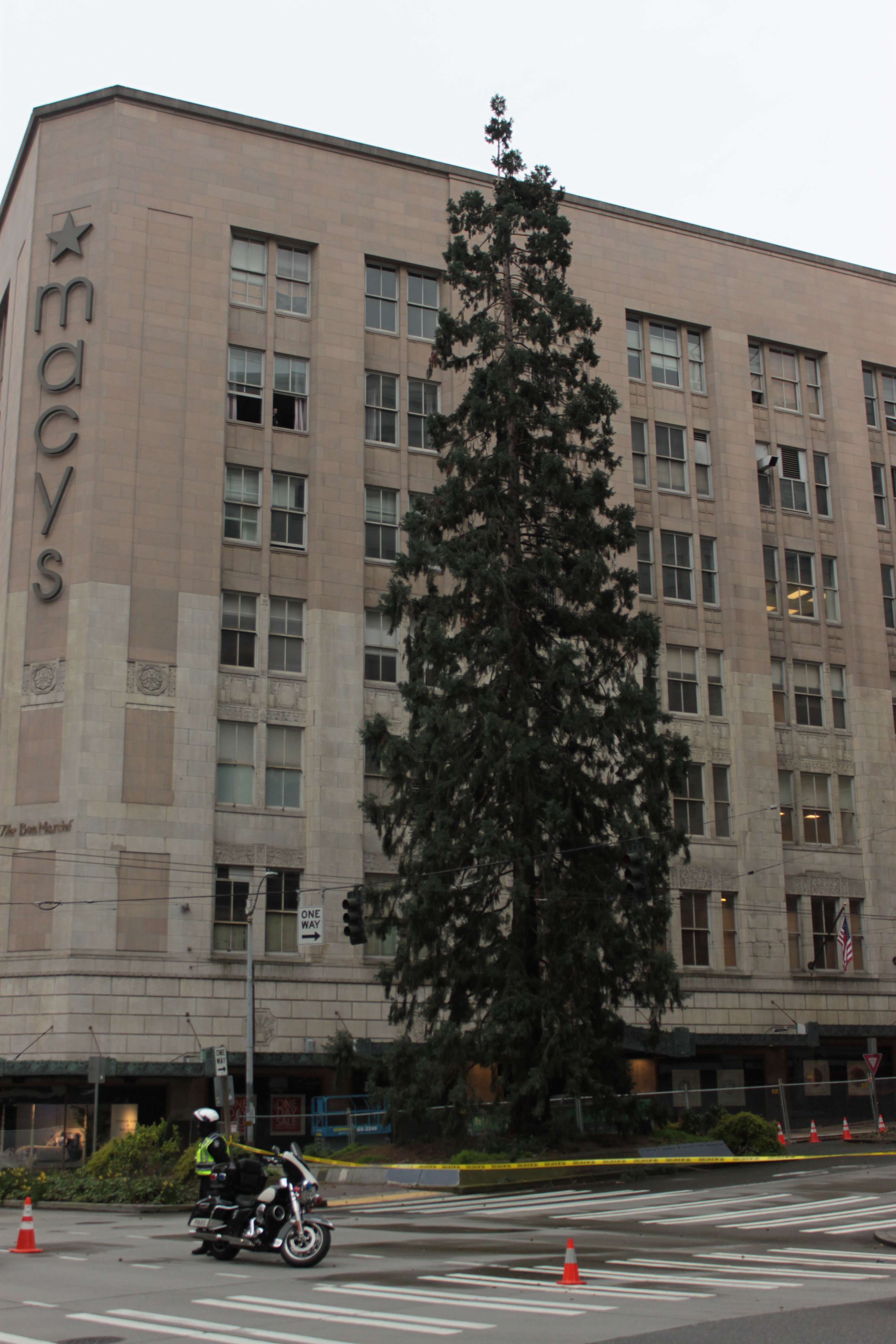 An 80-foot sequoia tree in Downtown Seattle, located at the intersection of 4th Avenue, Olive Way and Stewart Street, adjacent to the Downtown Seattle Macy's (formerly The Bon Marché).